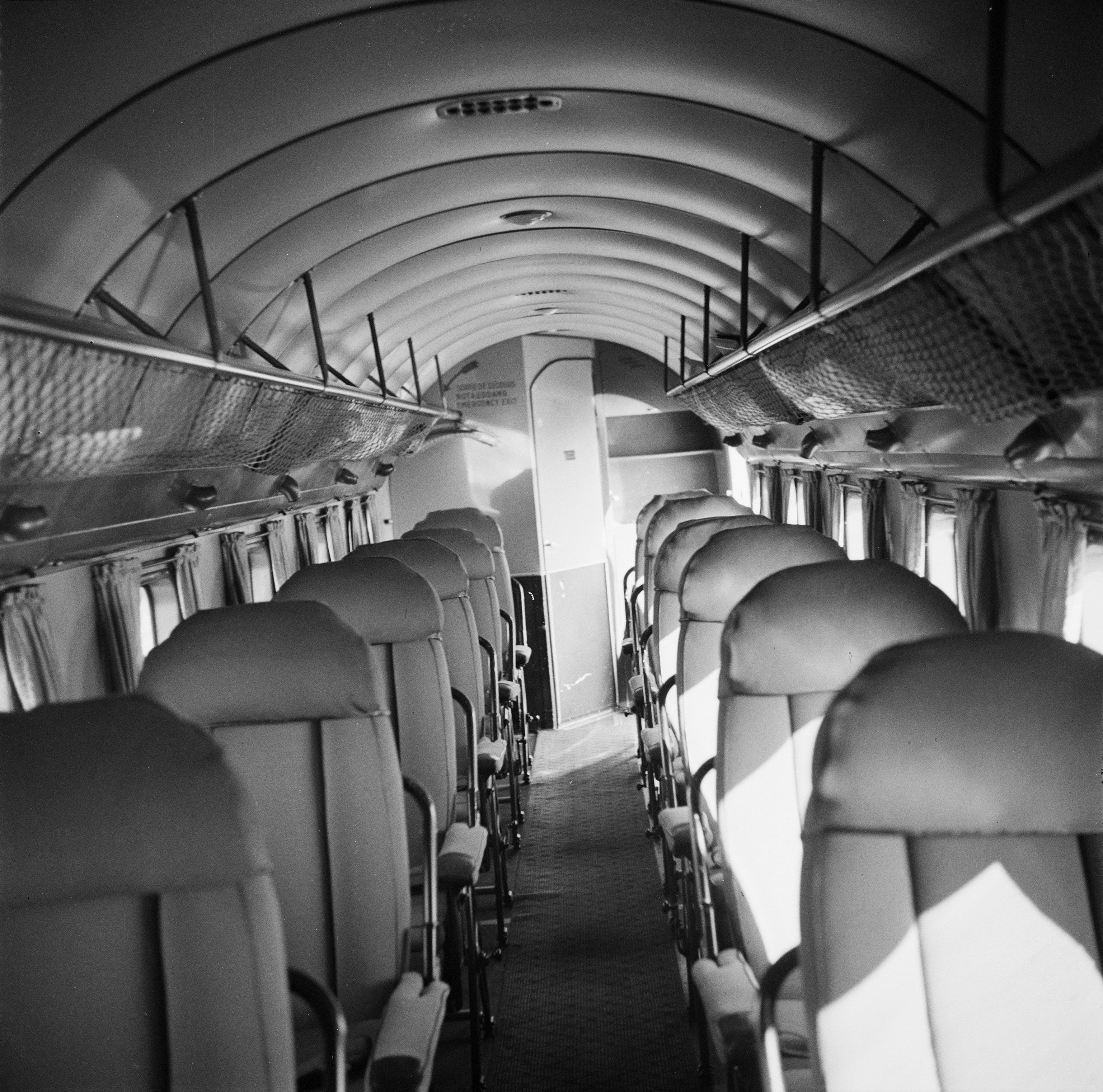 Die DC-2 hatte 14 Sitze, ausschliesslich Fensterplätze